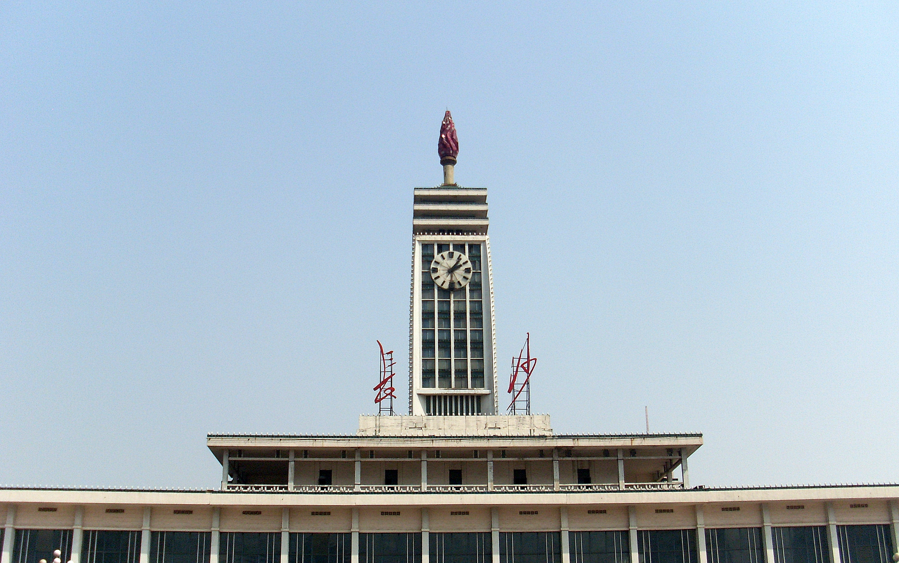 Changsha Railway Station